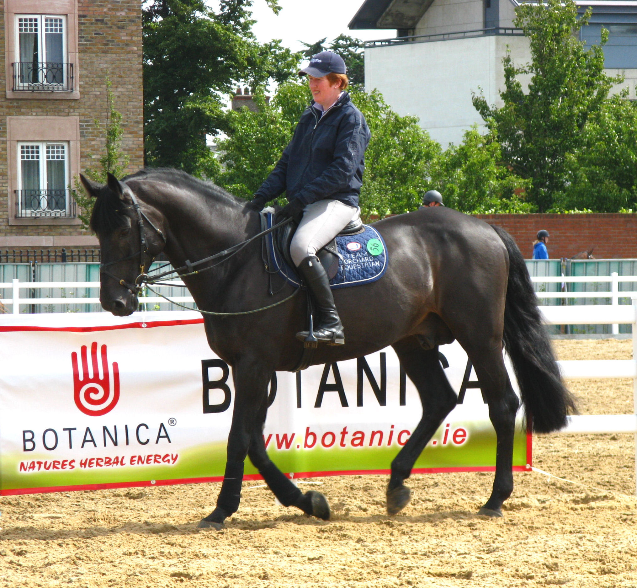 Chippison (ISH) – 1993 brown stallion by Cavalier Royale (HOLST) out of Chipmount (ISH), by Flagmount Boy (RID). Rider: Marie Burke (Irl)